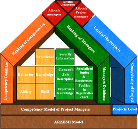 the arzesh competency model. Steps to select the best manager